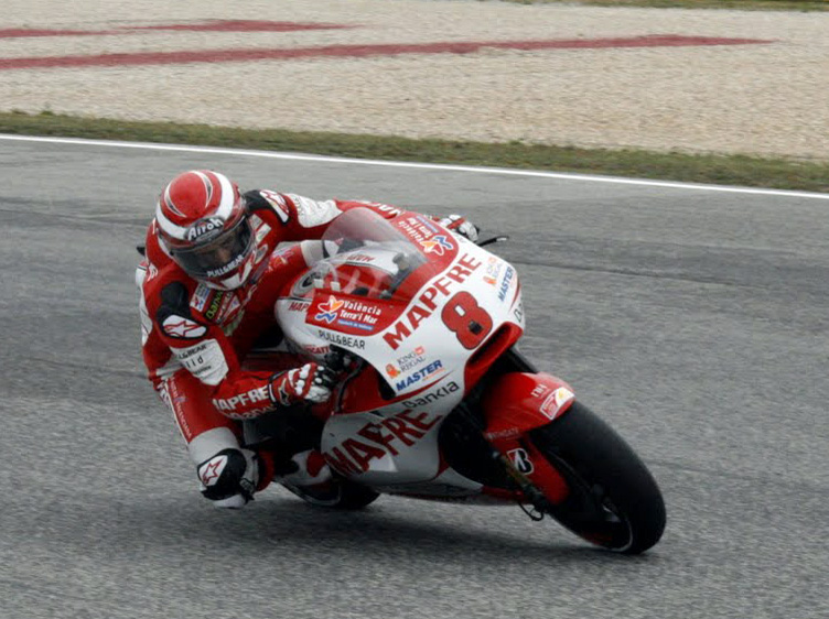 Hector Barbera 2011 Estoril